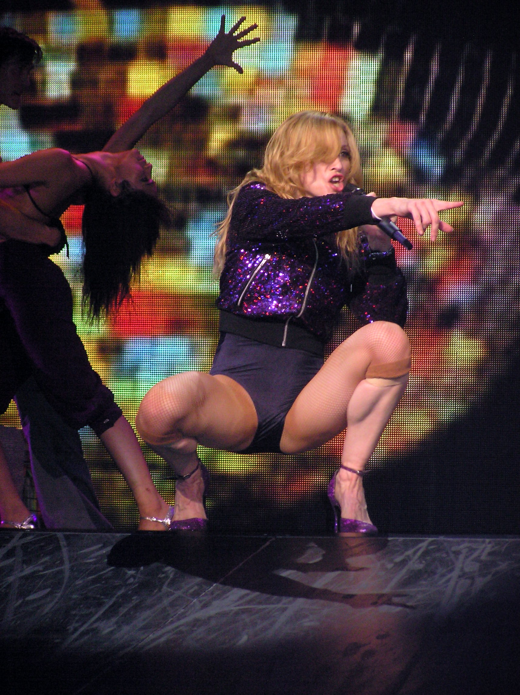 Madonna Concert